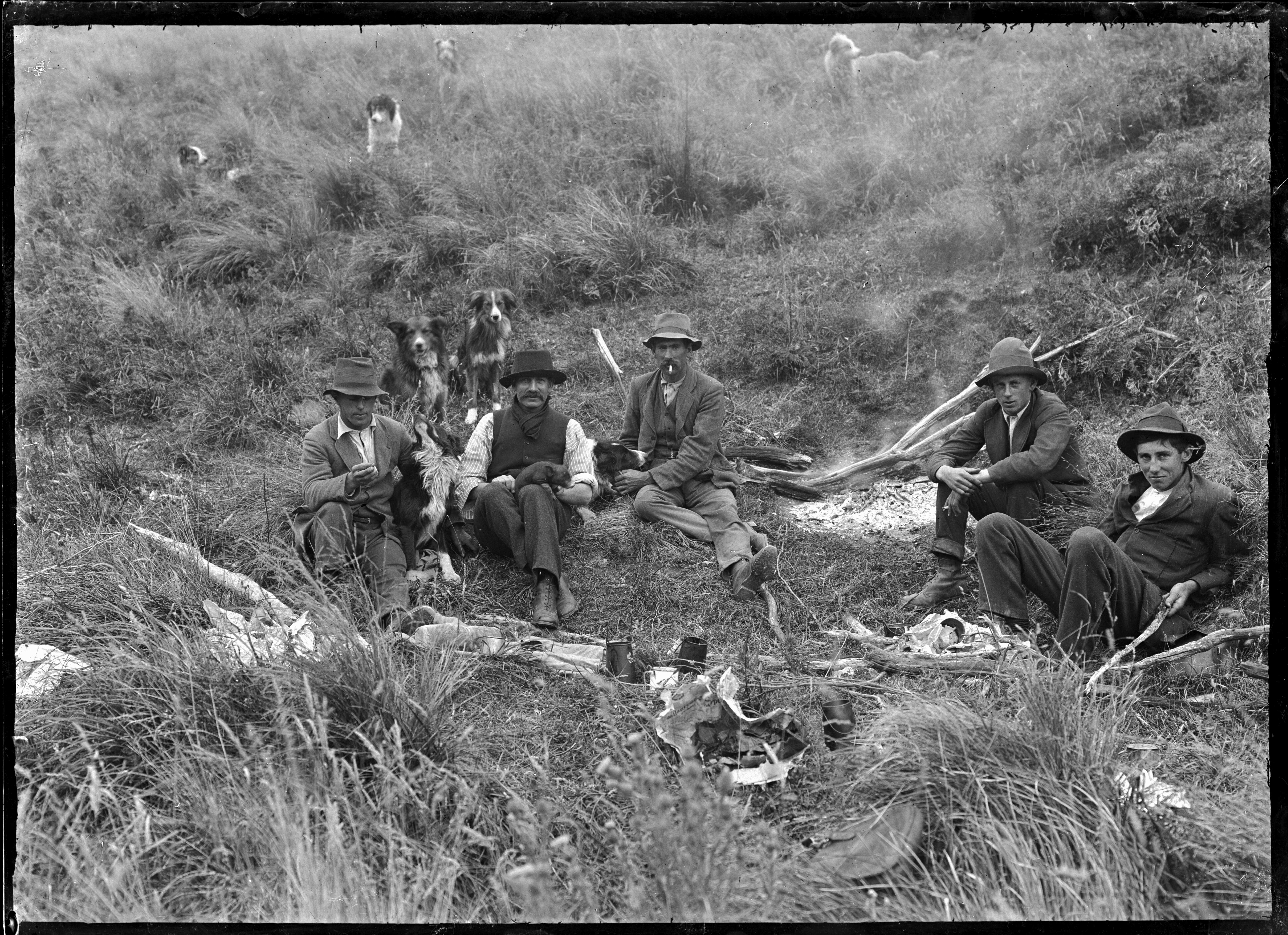 A group of five unidentified men with their farm dogs, around a camp fire. The man second from left, with a moustache and dark coloured hat, is holding a wild piglet on his lap. They are on a hillside covered with tussock grass. Photograph taken at the Mendip Hills sheep farm (owned by Andrew William Rutherford) by Albert Percy Godber in 1917.